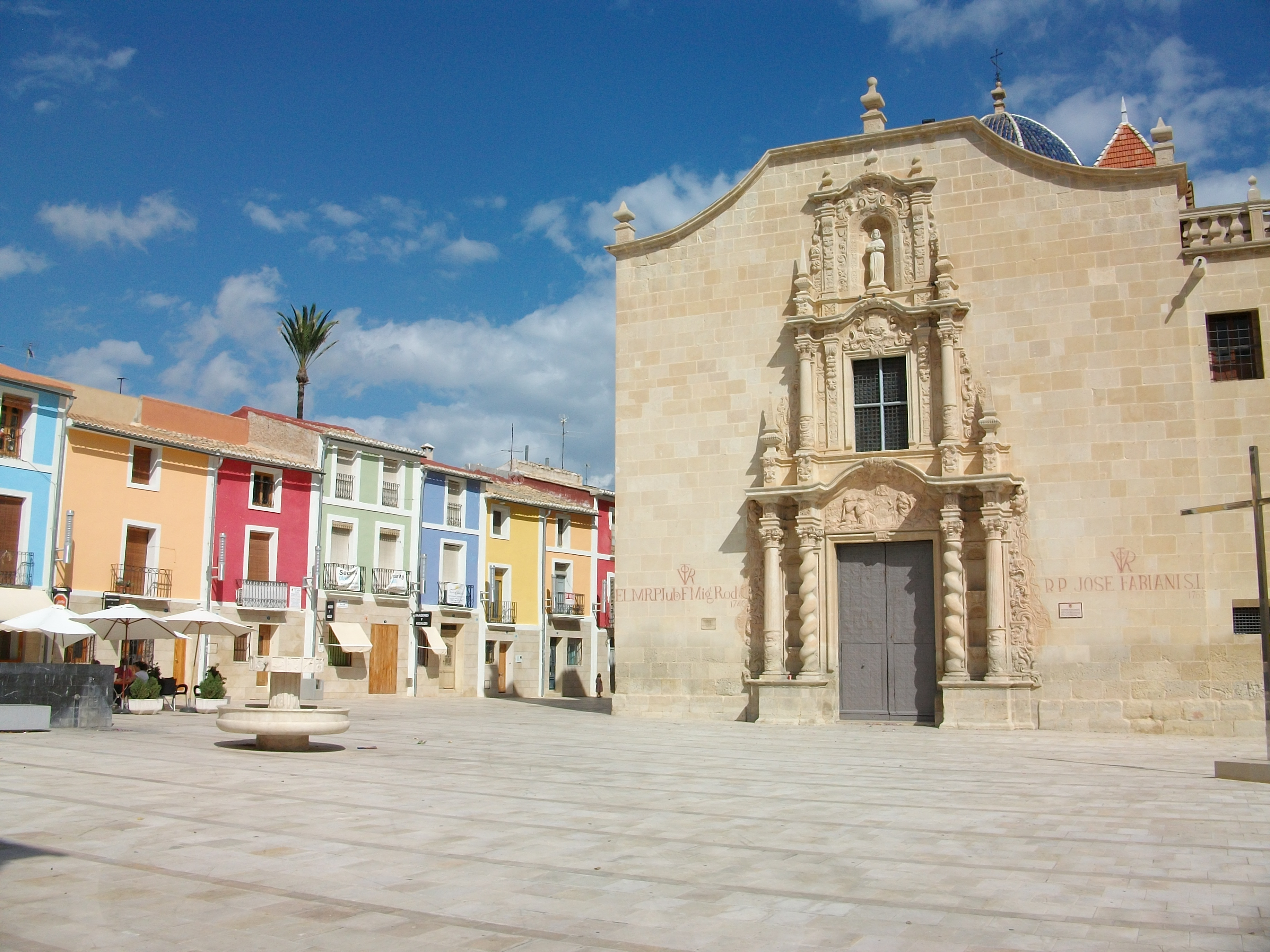 Plaça de Santa Faç, Alacant.